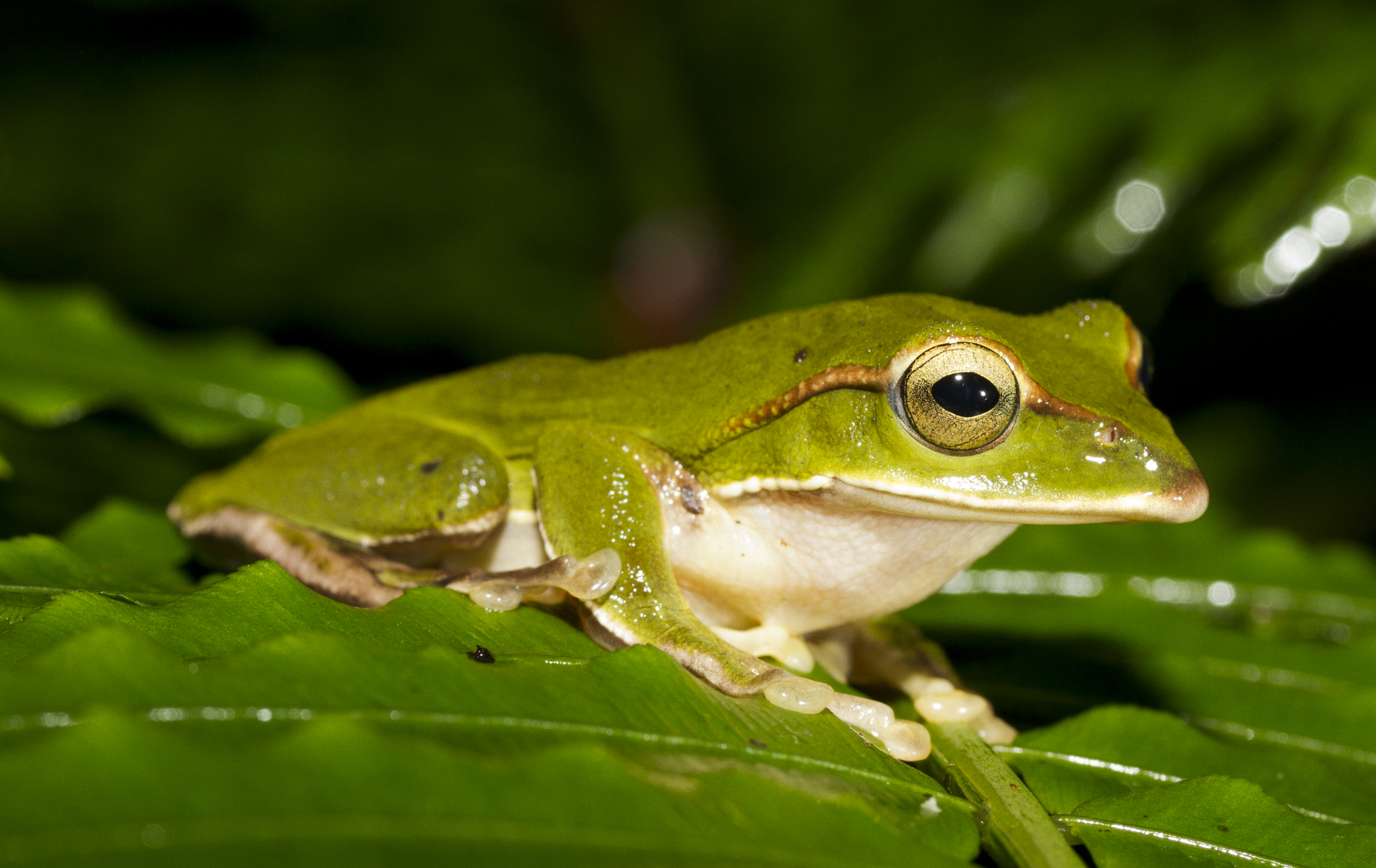 Tributary flying frog (Rhacophorus prasinatus) from Taipei, Taiwan